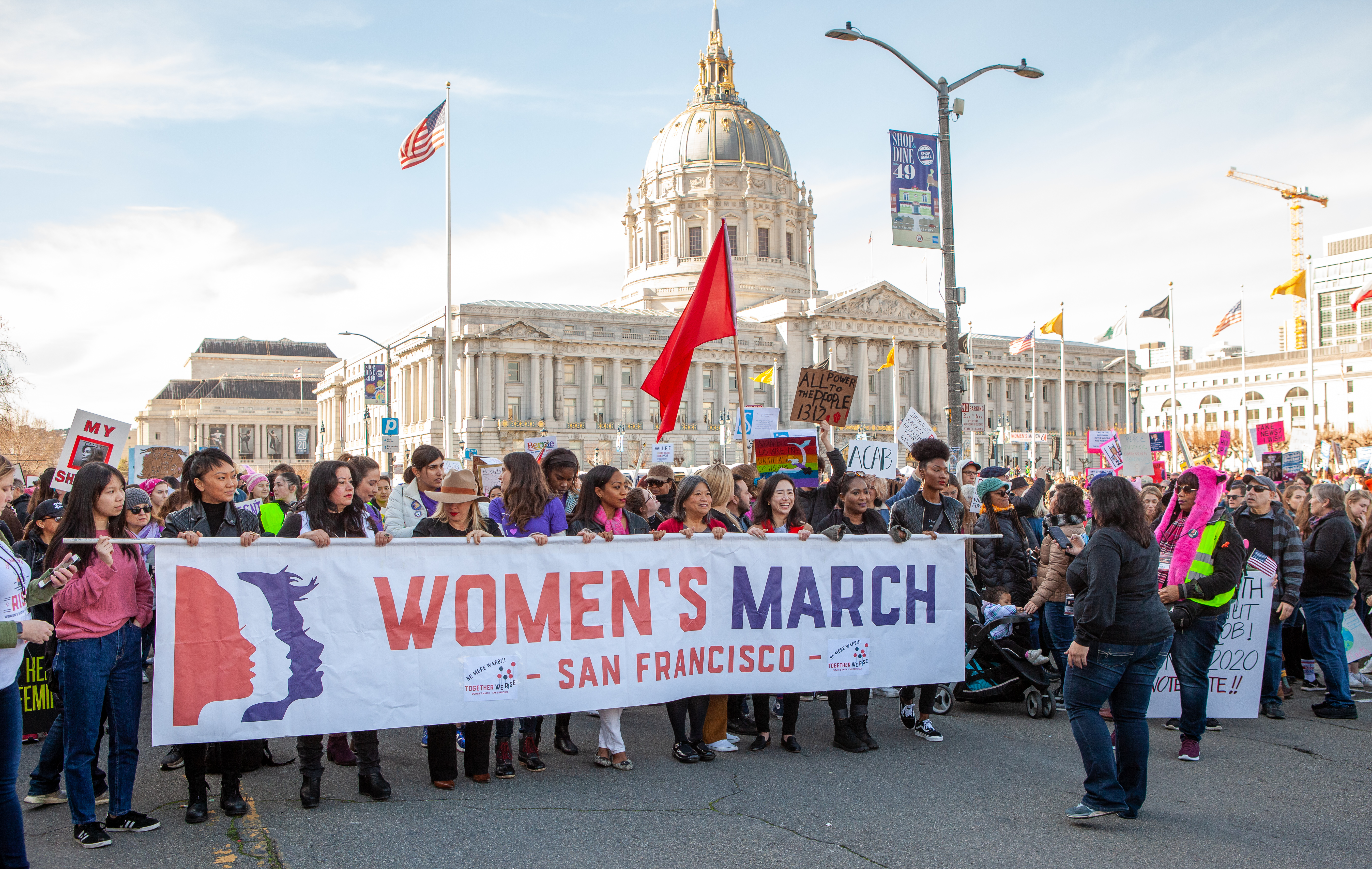 Marchers in the Community Contingent hold an official Women's March San Francisco banner.